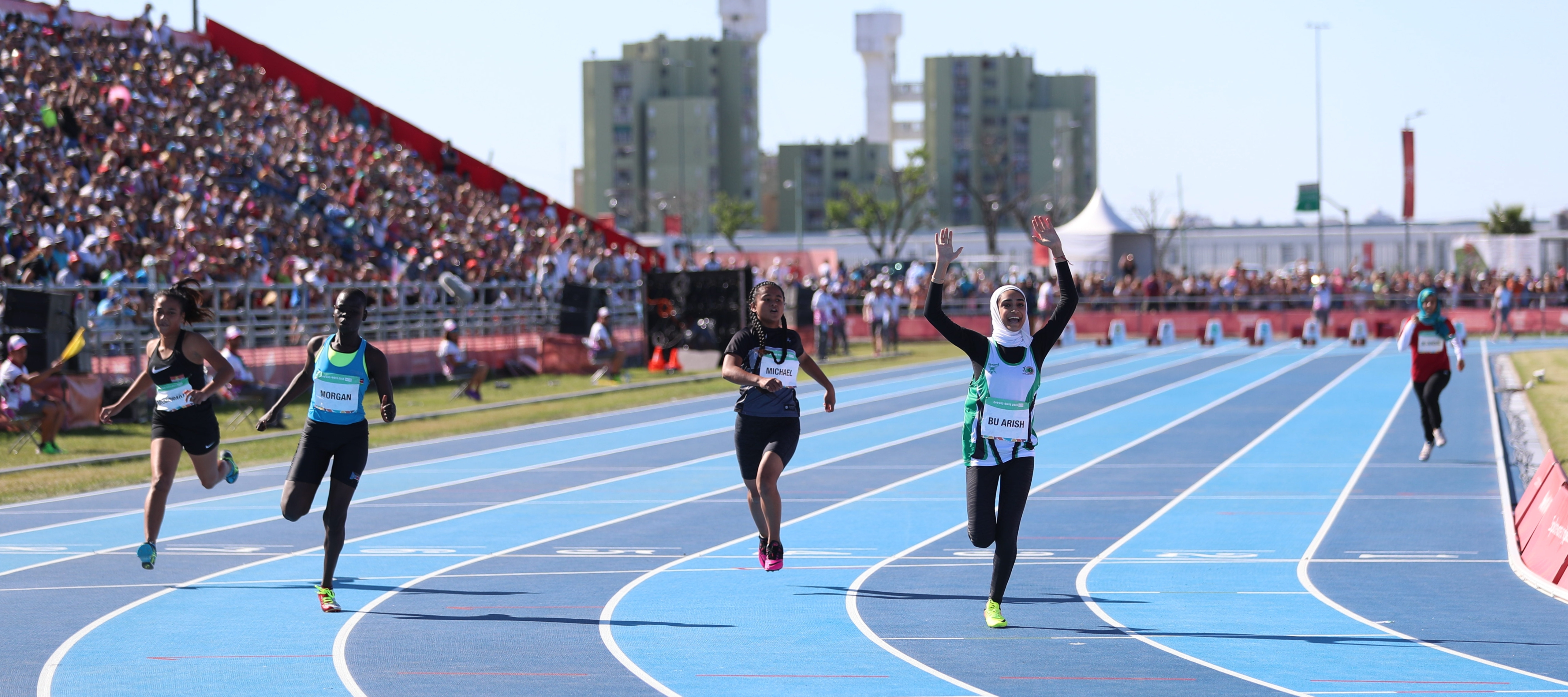 Athletics, Girls' 100m Stage 2, at the 2018 Summer Youth Olympics in Buenos Aires on 15 October 2018.